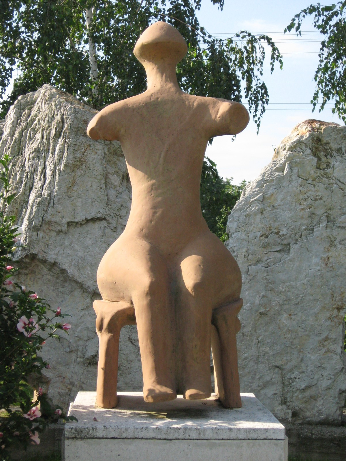 The copy of Venus statue from Nitriansky Hrádok, quarter of Šurany, Slovakia.